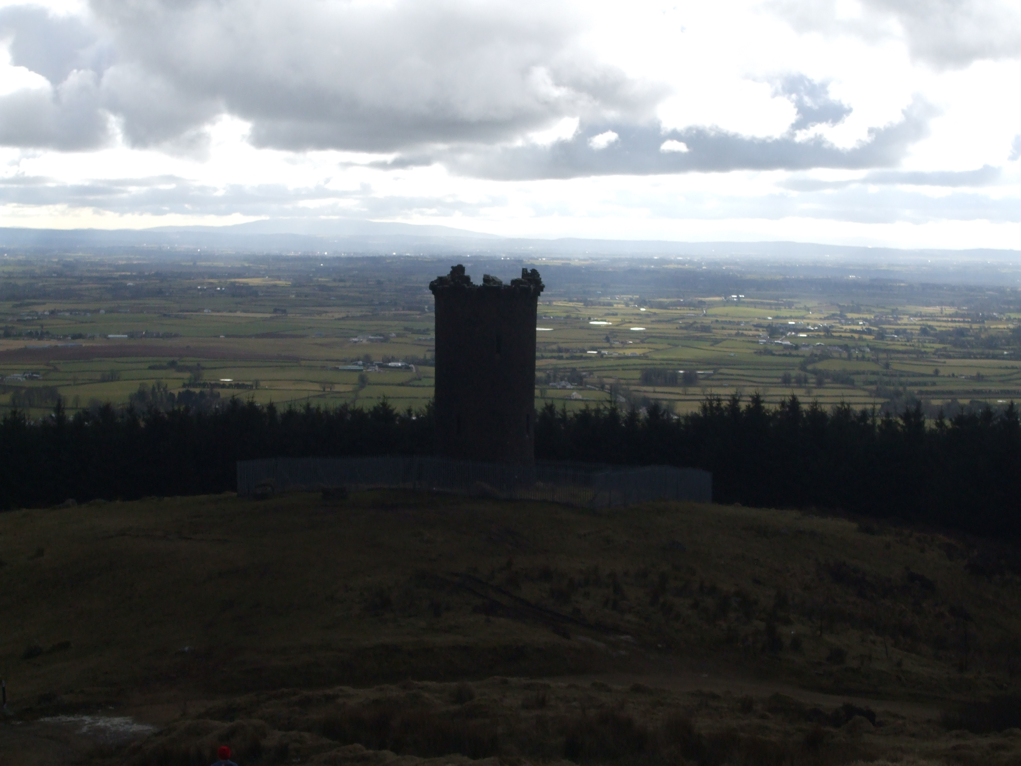 Cardens Folly at Devil's Bit,Co.Tipperary,Ireland